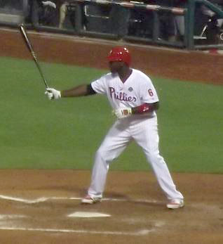 Ryan Howard relaxes before a pitch in a game on August 22, 2014